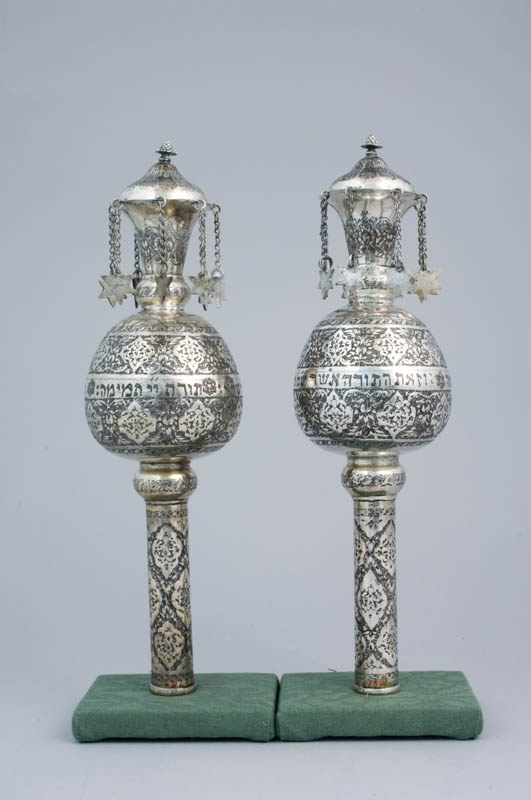 Title: Torah finials Artist: unknown Medium: silver Date: early 20th century Persistent URL: Repository: The Max Stern Collection Yeshiva University Museum Accession number: 1986.192 Rights Information: No known copyright restrictions; may be subject to third party rights. For more copyright information, click here. See more information about this image and others at CJH Digital Collections.